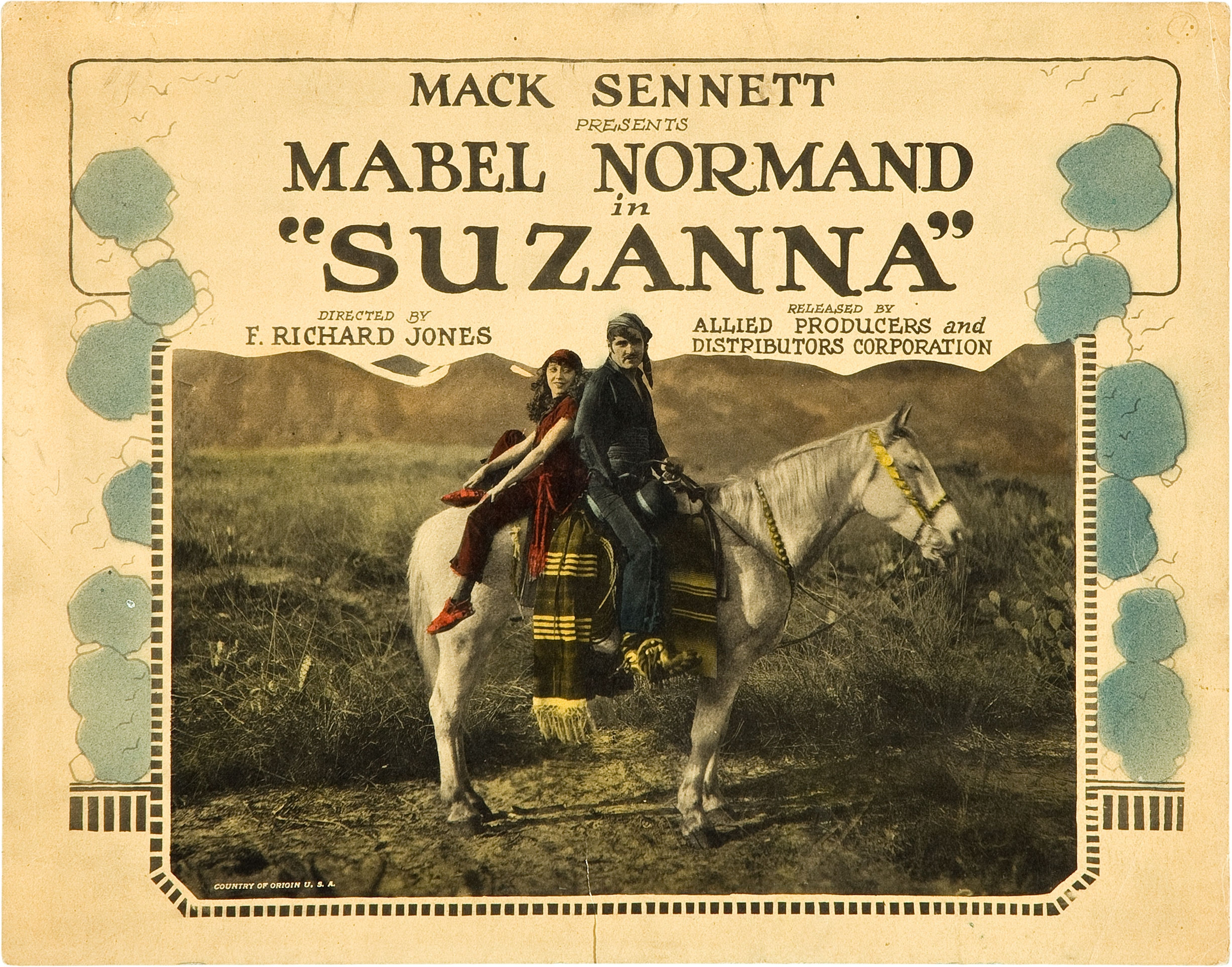 Suzanna (Allied Producers and Distributors, 1923) with Mabel Normand and Walter McGrail. Title Lobby Card and Lobby Card (11 inches X 14 inches).